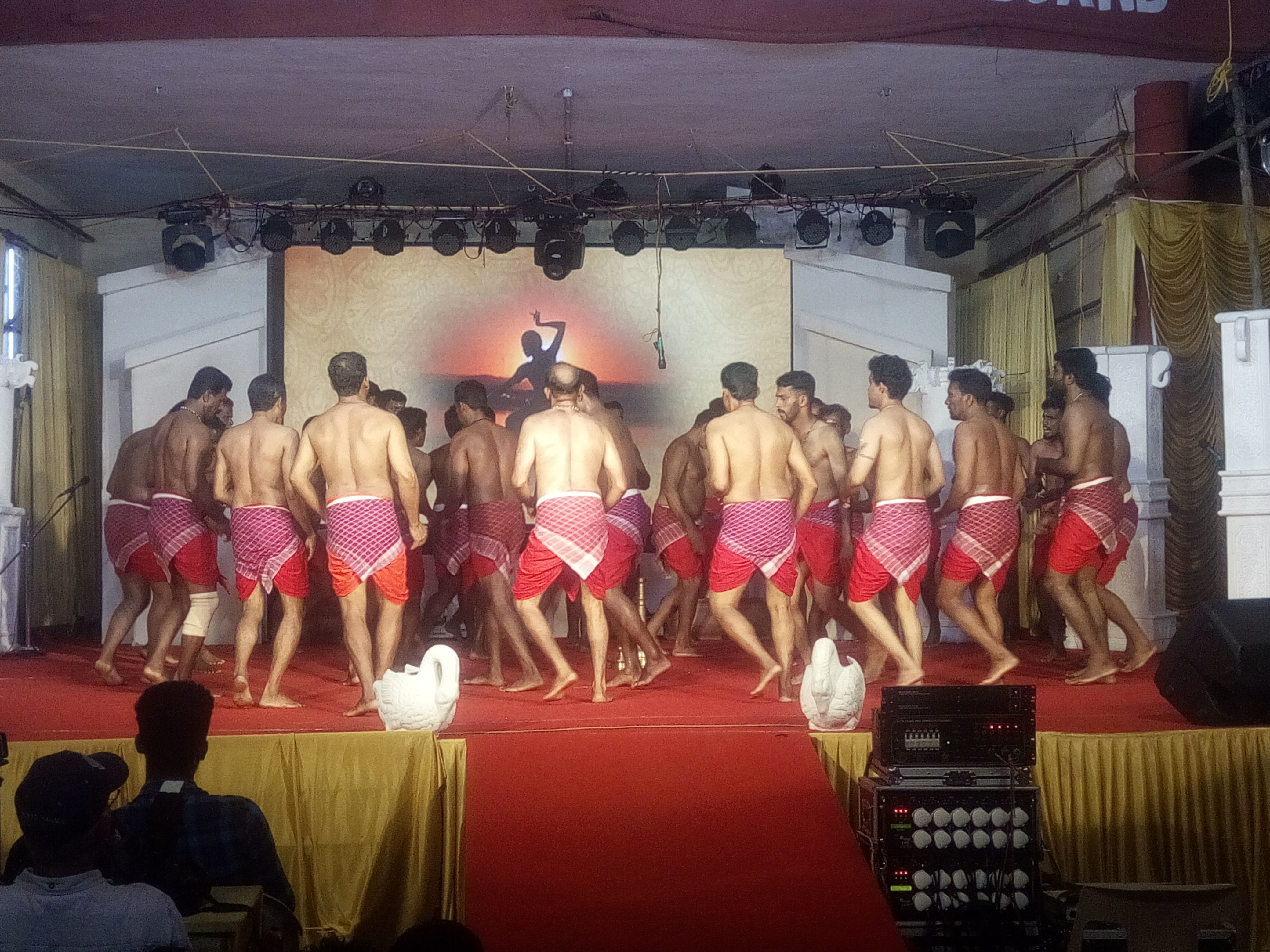 Poorakkali is a traditional art in north Kerala. Krishna bhakti is main theme. Influence of kalari is significant.